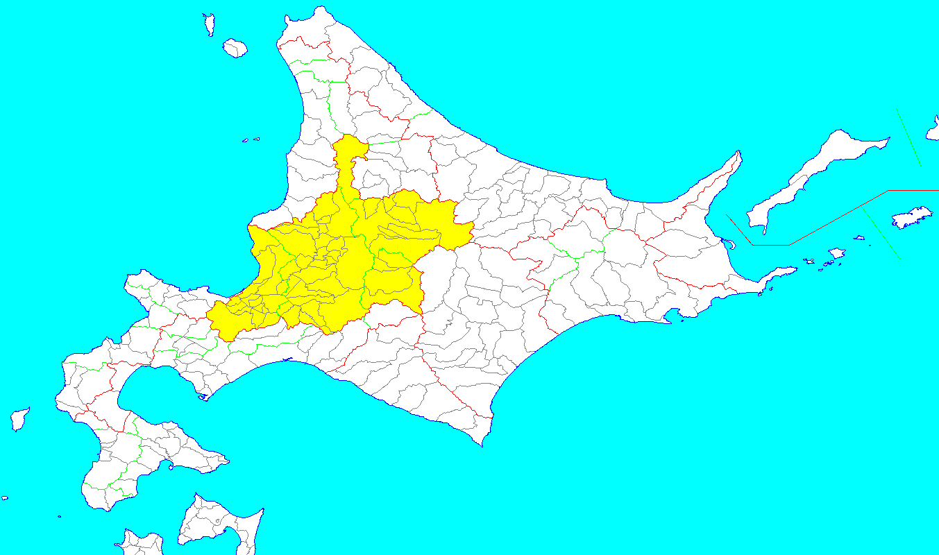 area of Ishikari provinces of Hokkaido in Japan(1869/08/15)